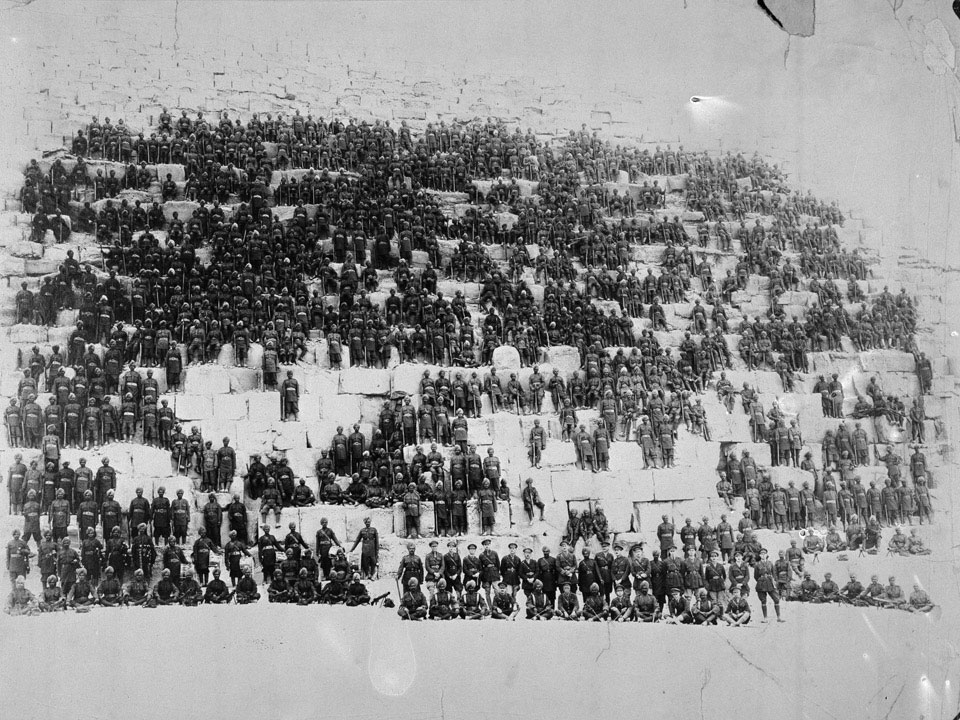 The 38th Dogras arrived in Egypt in April 1918 where they joined the 10th Division which was then undergoing a major reorganisation with many British units being replaced by Indian ones. The regiment went on to serve in Palestine, taking part in the battles of Megiddo and Nablus before helping capture Damascus (1918).